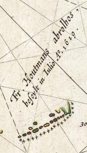 This is an image showing detail of the National Library of Australia's copy of Hessel Gerritsz' 1627 map of the north west coast of Australia entitled "Caert van't Landt van d'Eendracht". This detail shows a feature labelled "Fr. Houtman's abrolhos"; this is significant because it represents the first known use in print of the name of the Houtman Abrolhos, although not the first time this archipelago was charted.